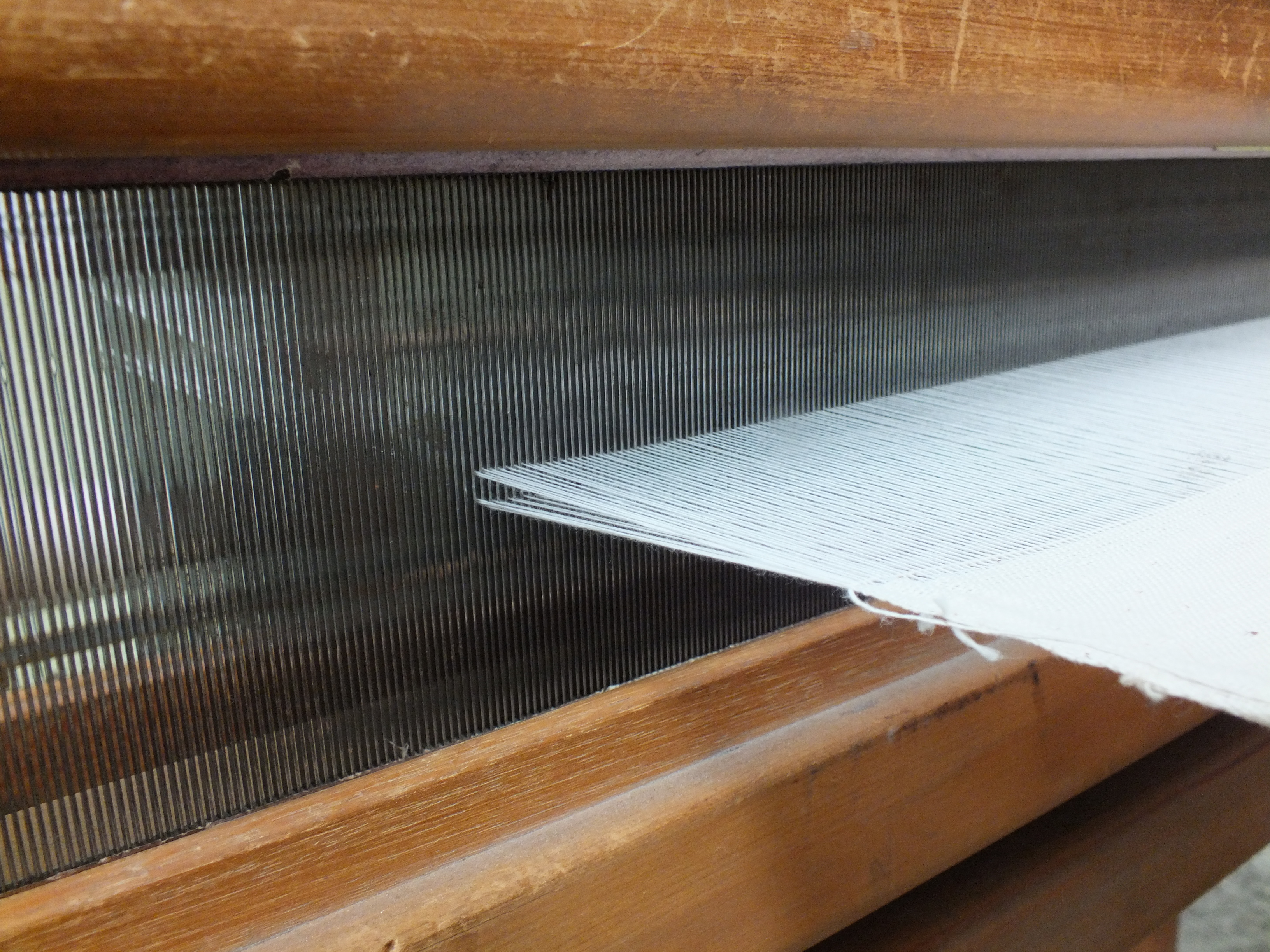 Queen Street Mill in Harle Syke, a suburb to the north-east of Burnley, Lancashire, was built in 1894 for the Queen Street Manufacturing Company. It closed on 12 March 1982 and was mothballed, but was subsequently taken over by Burnley Borough Council and used as a museum. In the 1990s ownership passed to Lancashire Museums. Unique in being the world's only surviving steam-driven weaving shed. The Pemberton loom was standard in this shed.